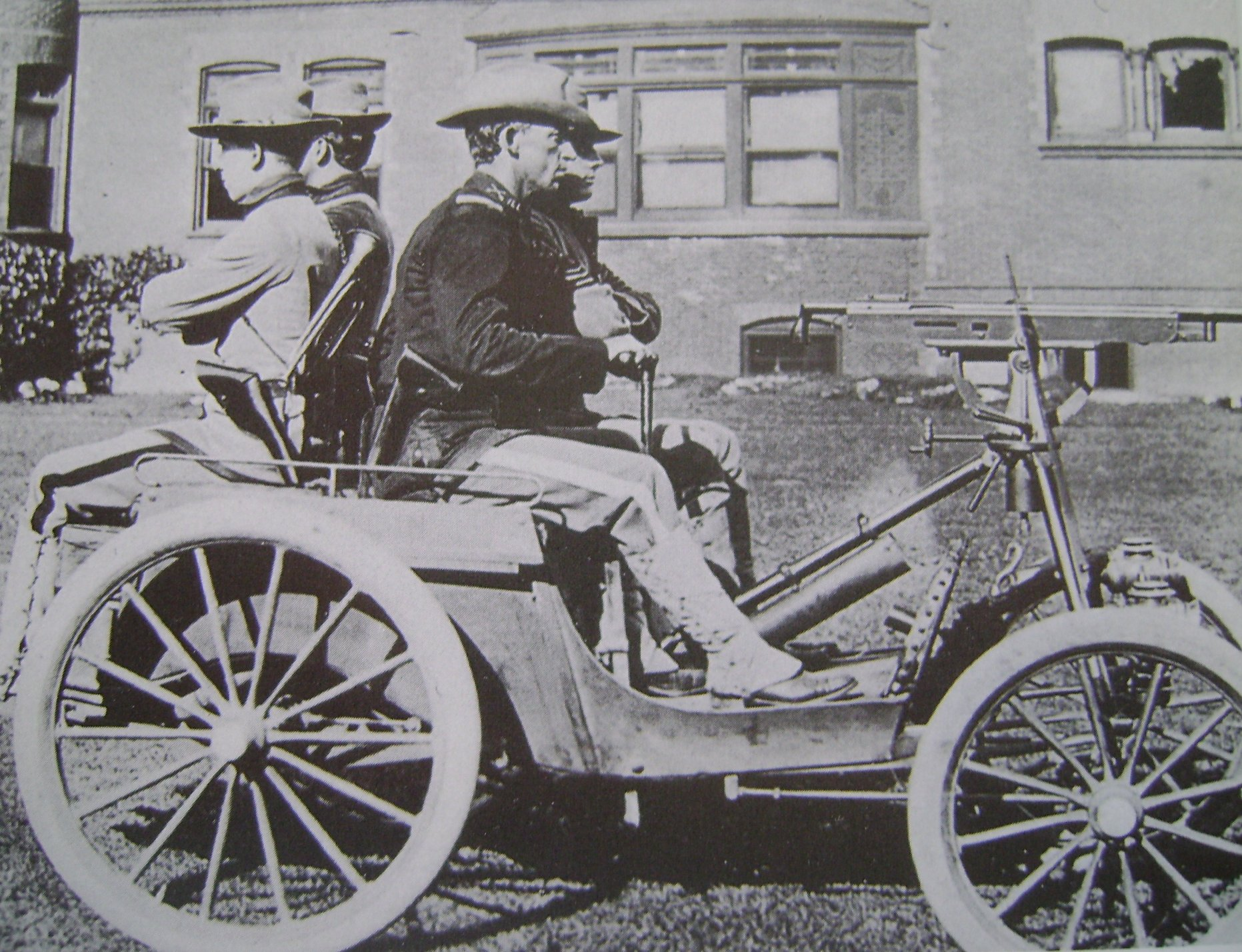 Davidson-Duryea 4-wheeled military car.